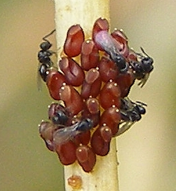 Telenomus sp (L. Fusu ID) emerging from eggs of Heteroptera, probably Liorhyssus hyalinus (Rhopalidae), laid on Lactuca serriola.